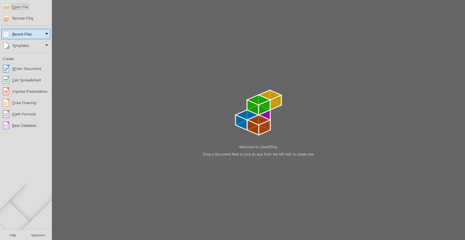 LibreOffice start page